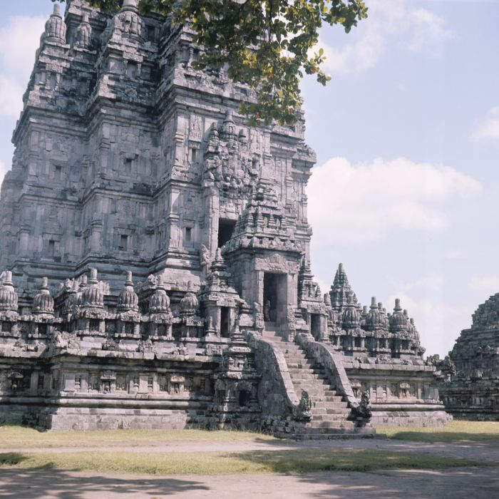 The Candi Lara Jonggrang or Prambanan temple complex